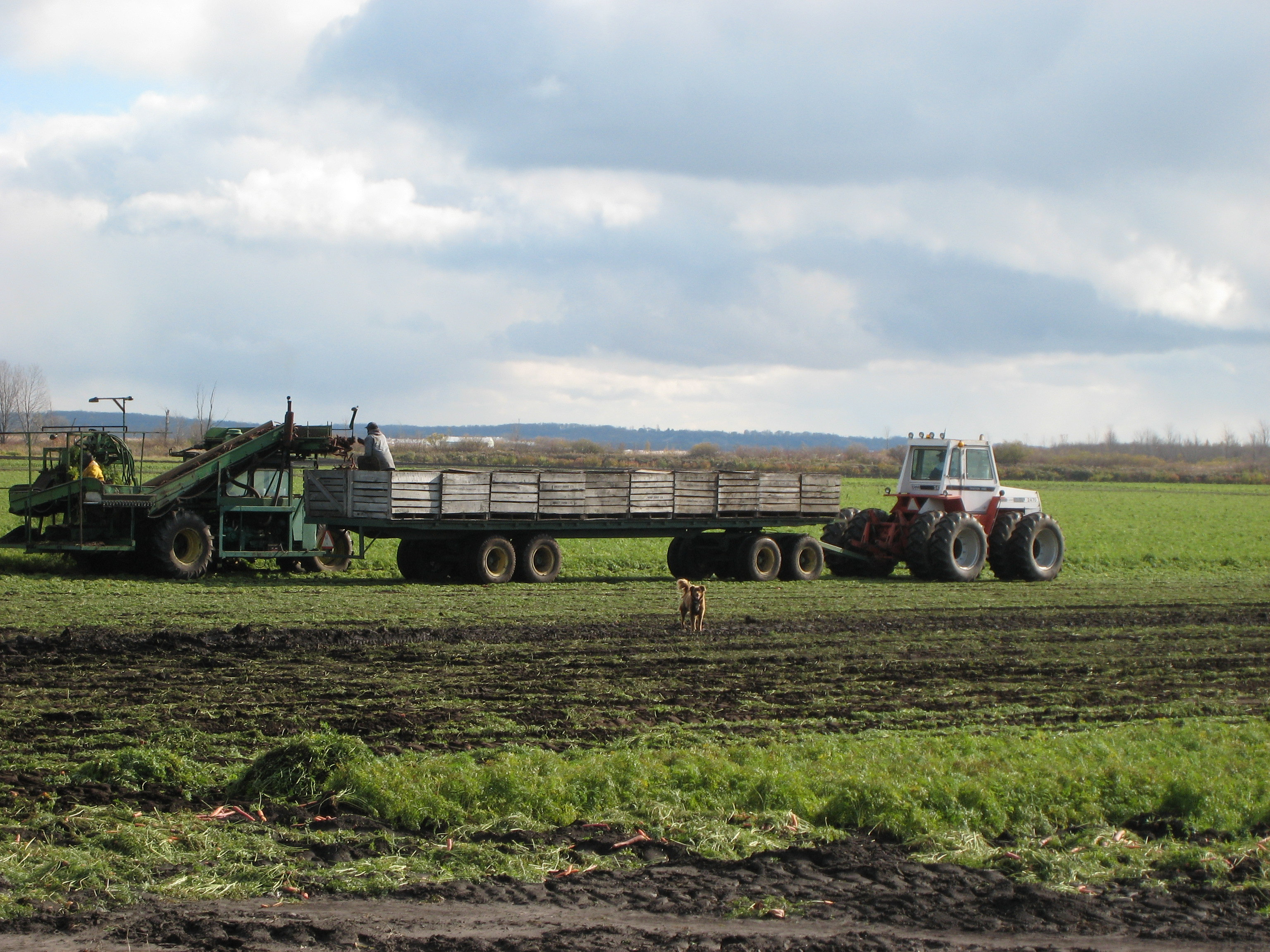 The annual harvest on the Holland Marsh, in York Region, Ontario, Canada. A self-propelled carrot harvester and a Case IH 2470 tractor with trailer.